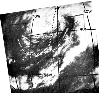 This TIROS V image of Alma was taken on August 29, 1962 at 1431z offshore New England/Atlantic Canada